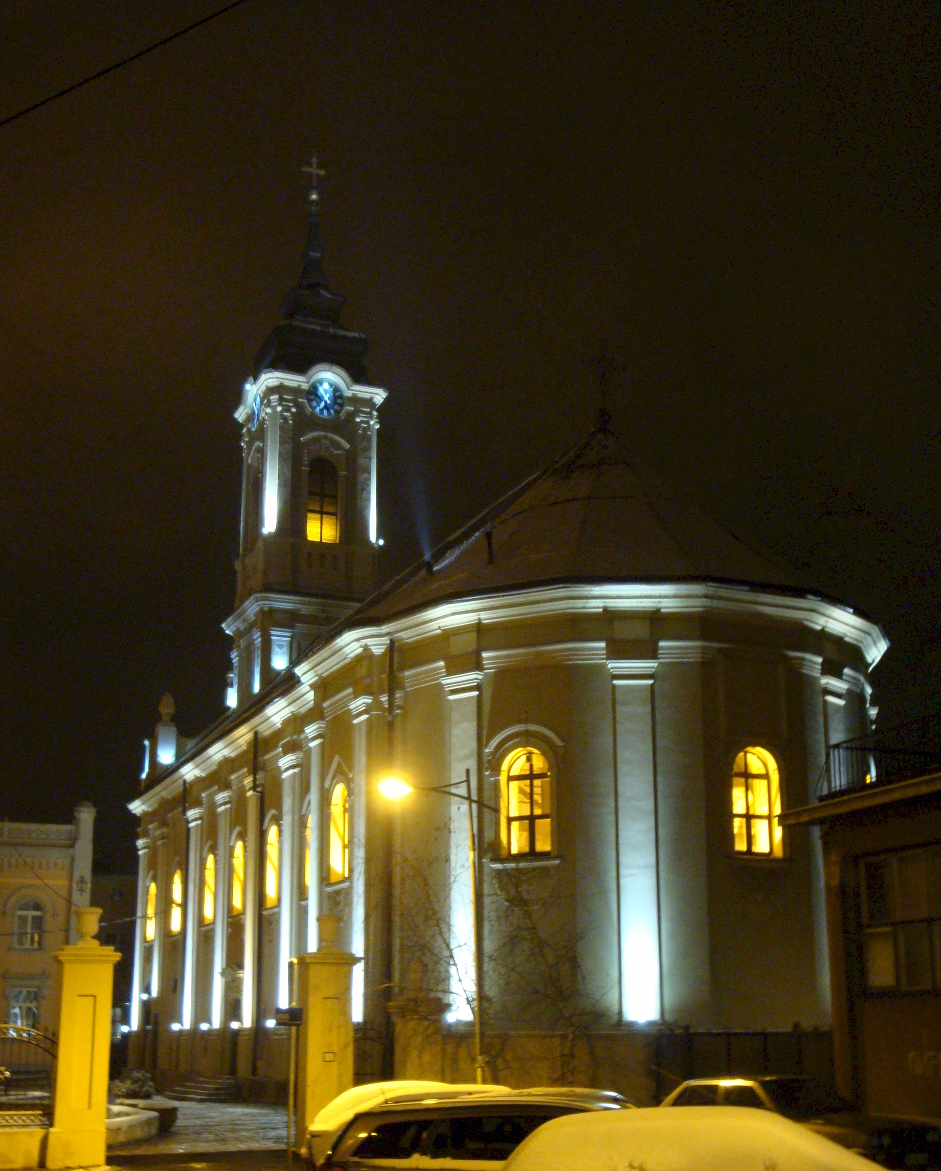 Mother of Jesus church in Zemun, by night.